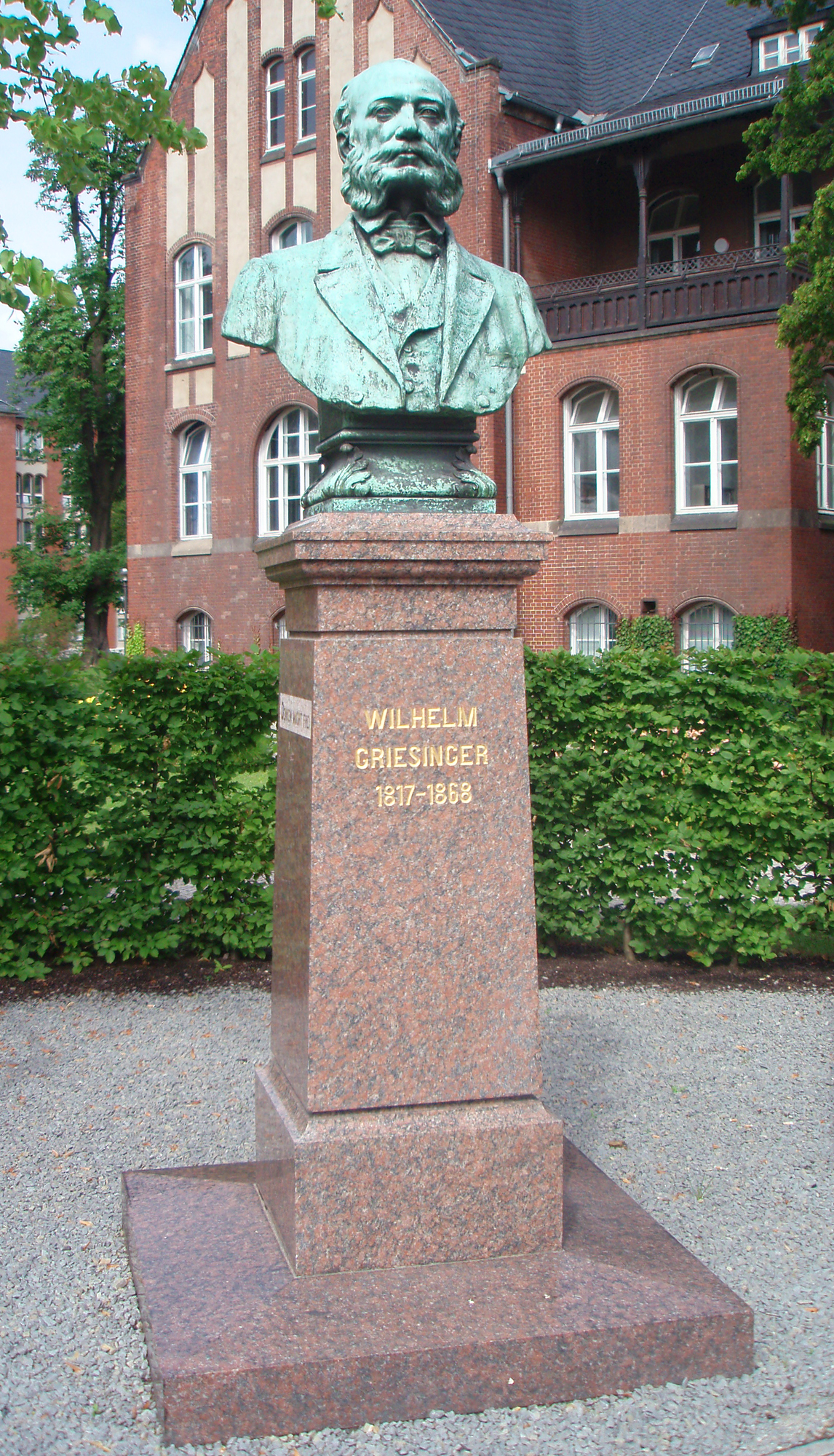 Monument to Wilhelm Griesinger in Charité University Hospital in Berlin